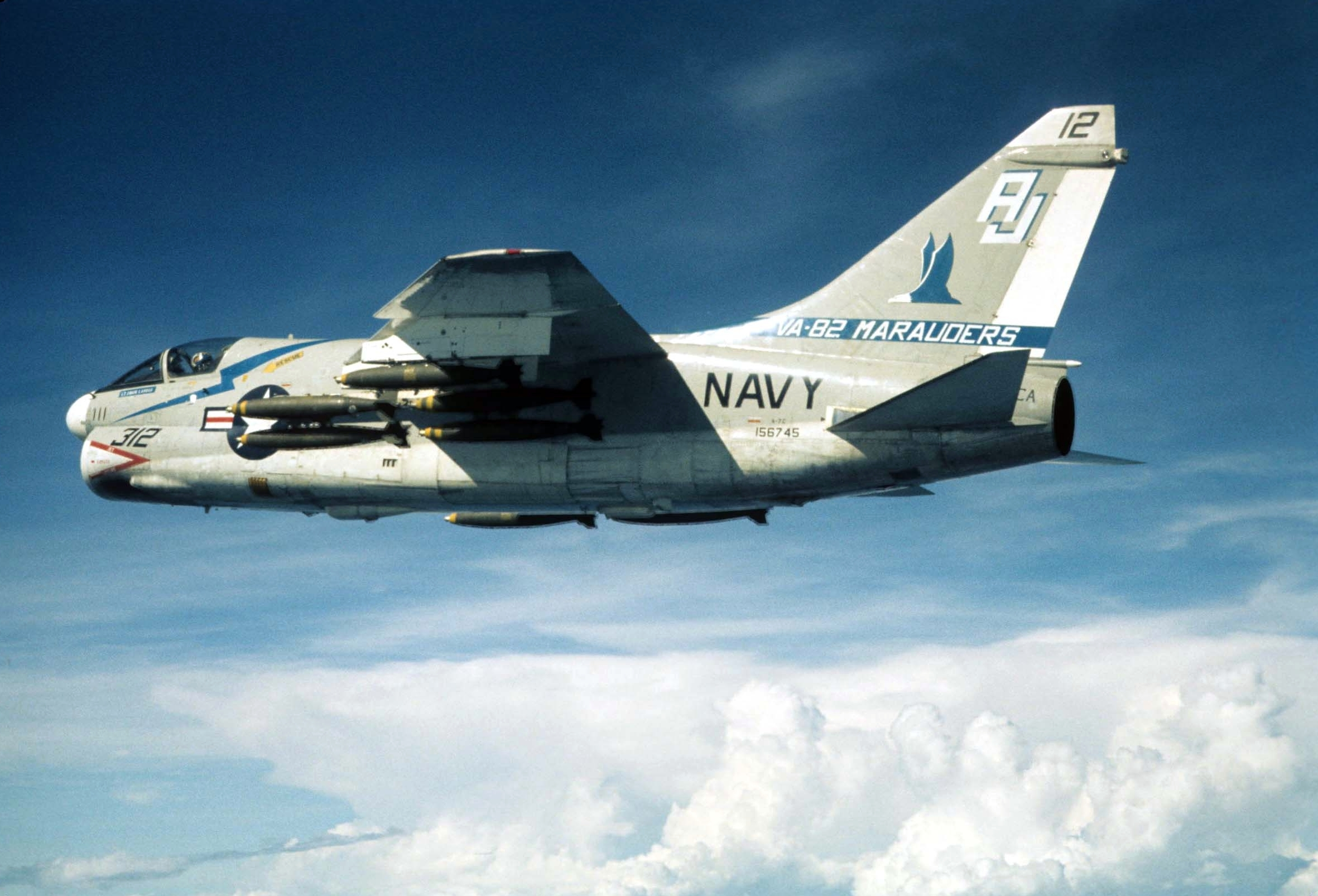 A U.S. Navy Ling Temco Vought A-7C-2-CV Corsair II (BuNo 156745, c/n C-012) from attack squadron VA-82 Marauders armed with 227 kg Mk 82 bombs en route to a target in Vietnam in 1972/73. VA-82 was assigned to Attack Carrier Air Wing 8 (CVW-8) aboard the aircraft carrier USS America (CVA-66) for a deployment to Vietnam from 5 June 1972 to 24 March 1973. The A-7C 156745 was later converted to an TA-7C, then to an EA-7L. It was retired to the AMARC as 6A0405 on 25 September 1991.